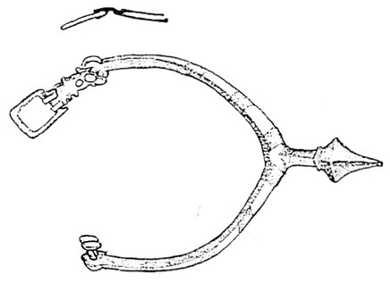 A spur from 13th century, Kočani, Republic of Macedonia